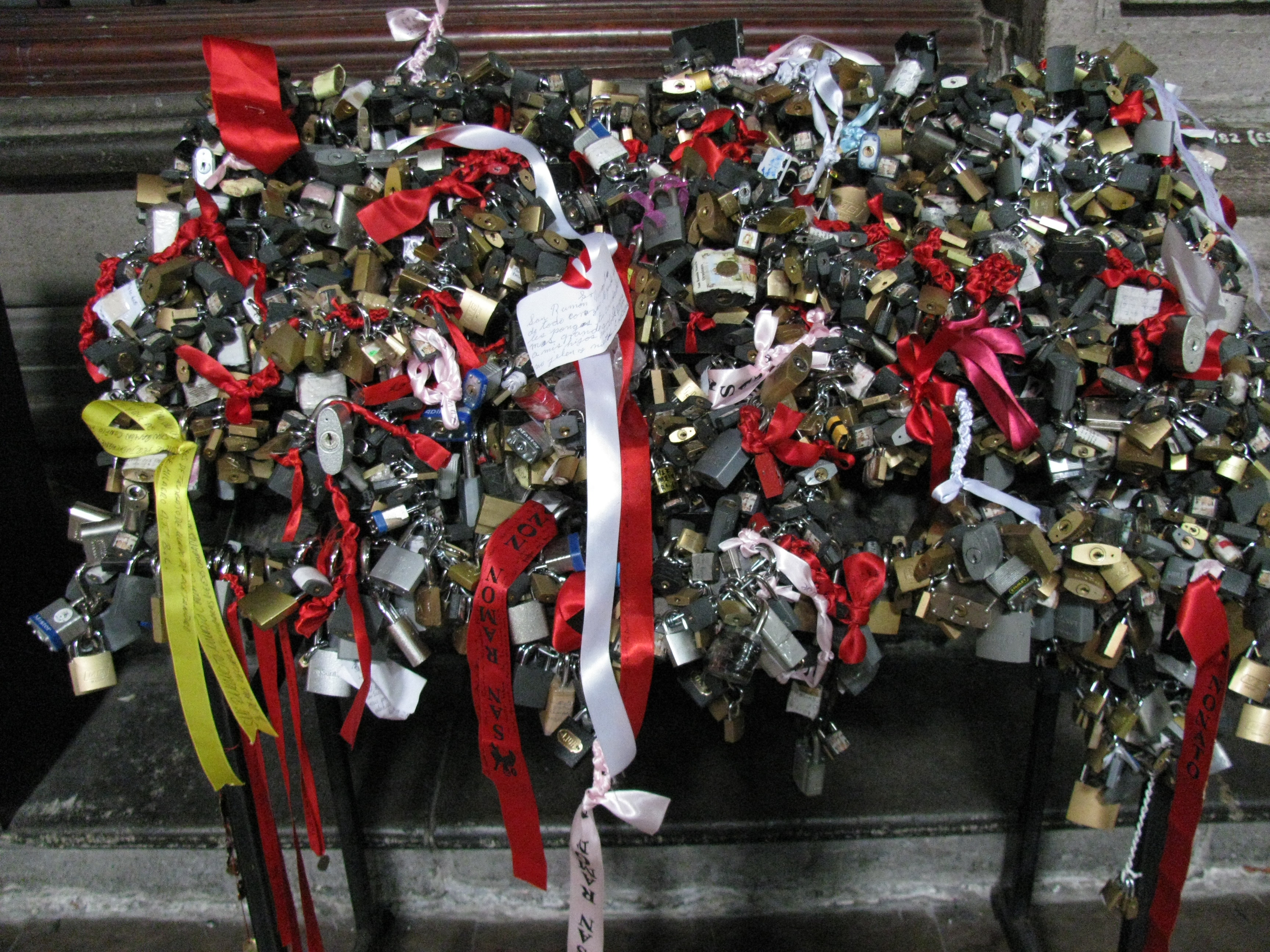 Altar of Saint Raymond Nonnatus, Metropolitan Cathedral, Mexico City. Locks placed to stop gossip, rumours, false testimonies and bad talk. They are also used to keep secrets, and to stop cursing or lying. Patron of priests who want to protect the secrecy of confession.